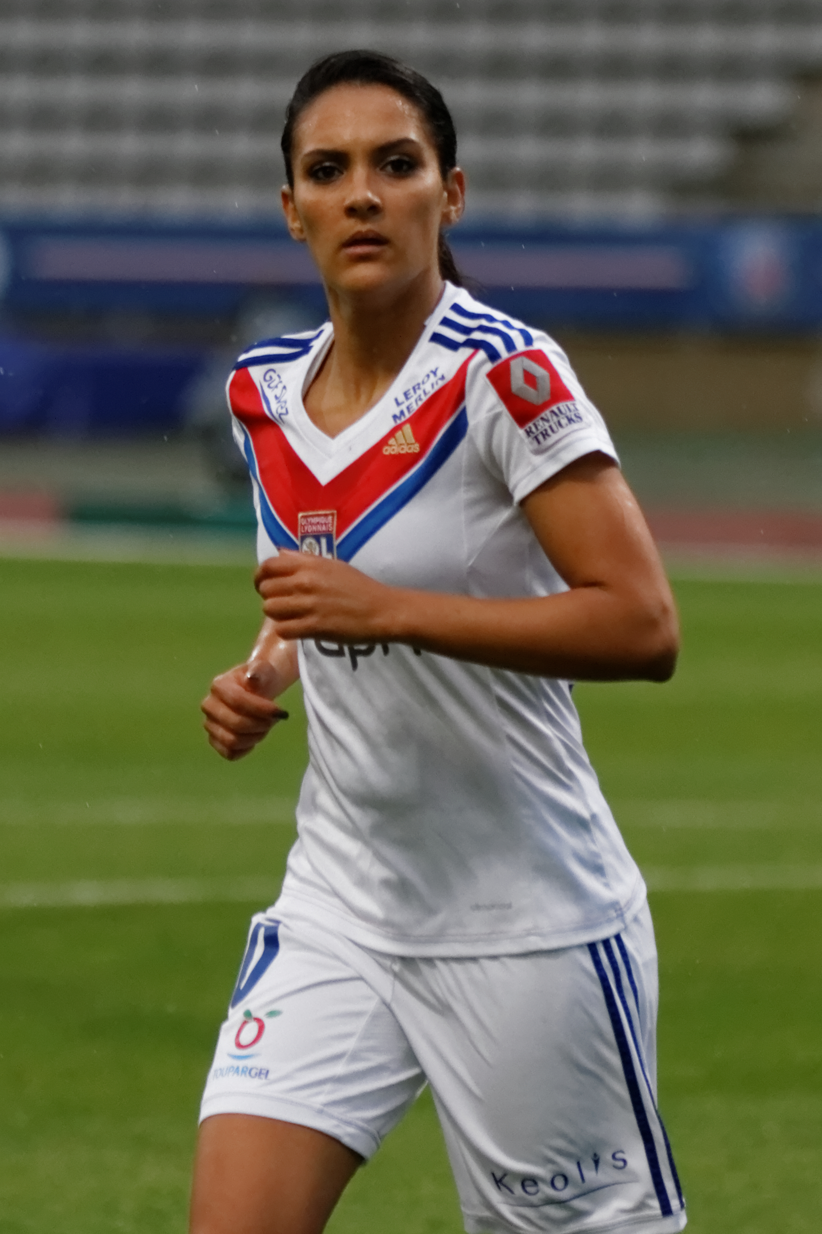 PSG-Lyon, September 29th, 2013.